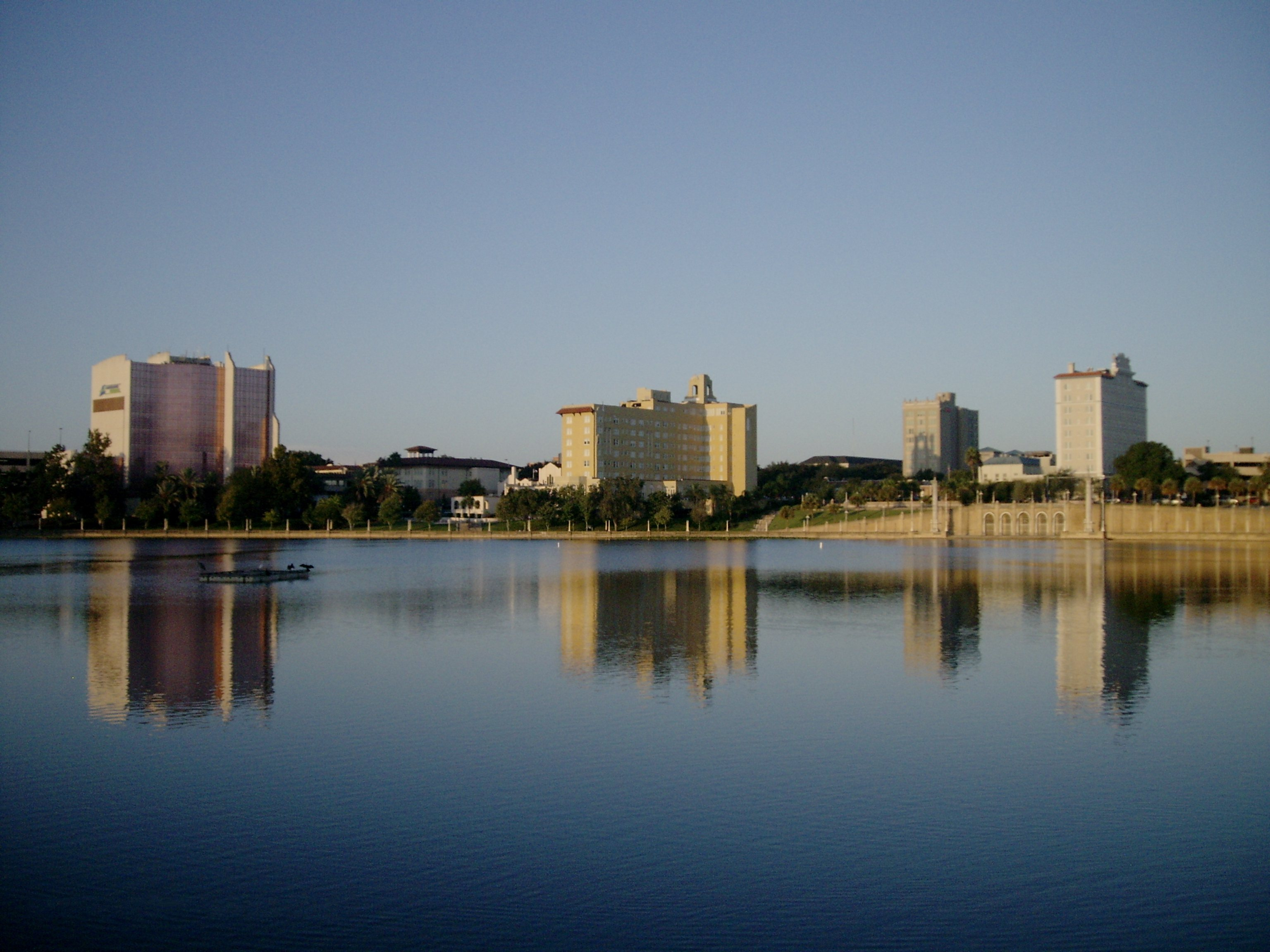 This is the skyline of downtown Lakeland from Lake Mirror.